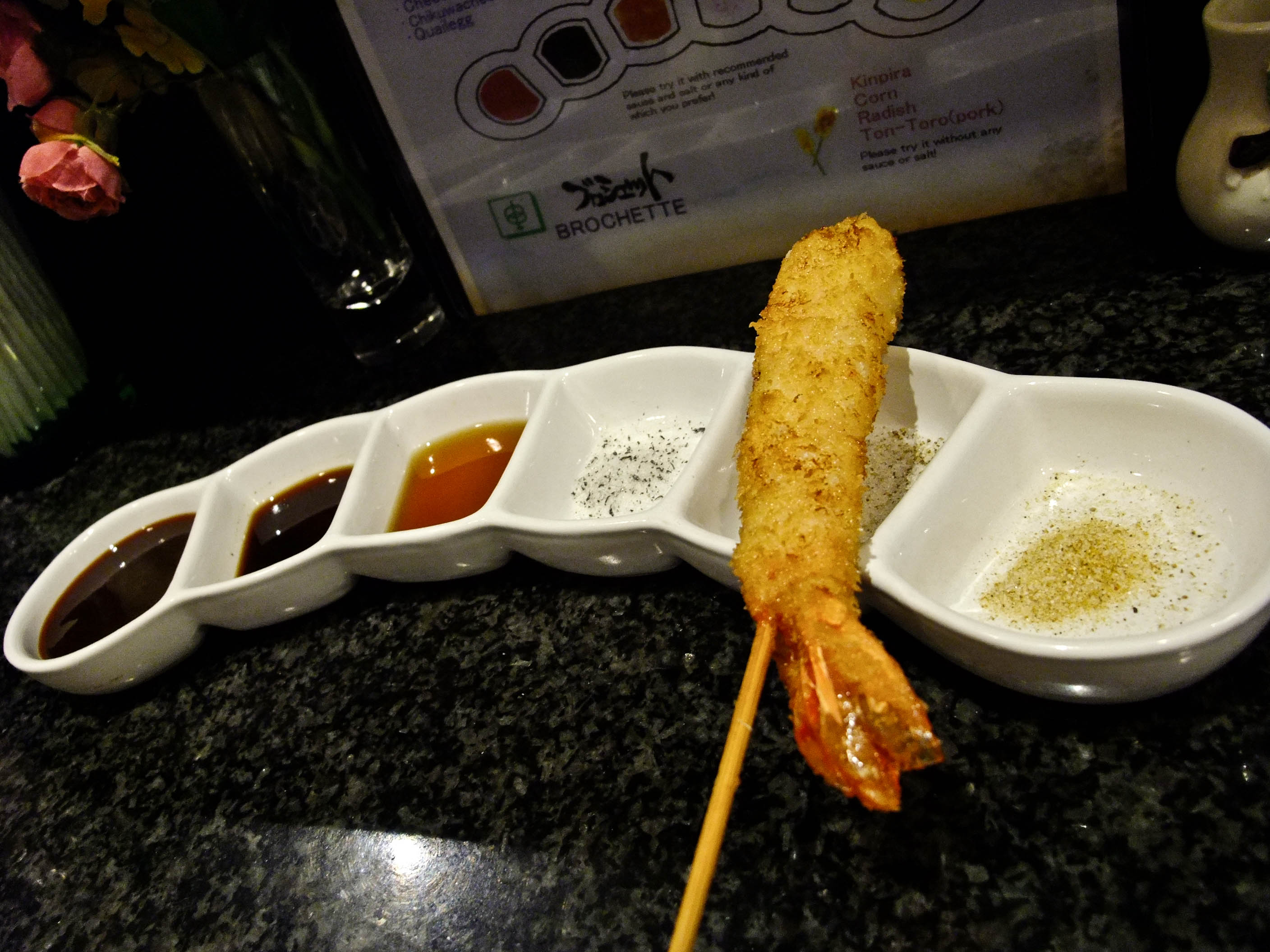 Kushikatsu